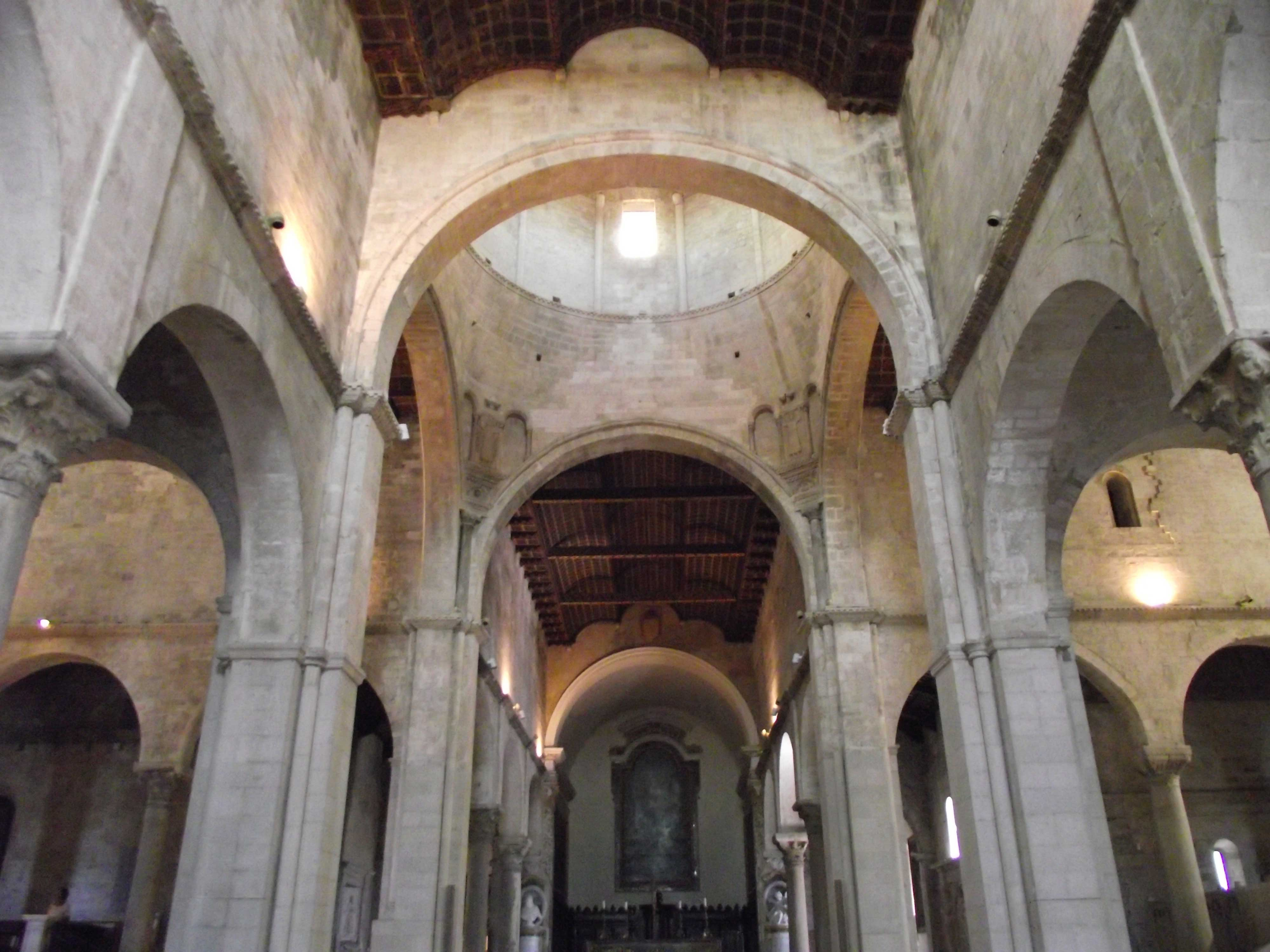 Ancona, Cathedral of St. Cyriacus, X-XII Century